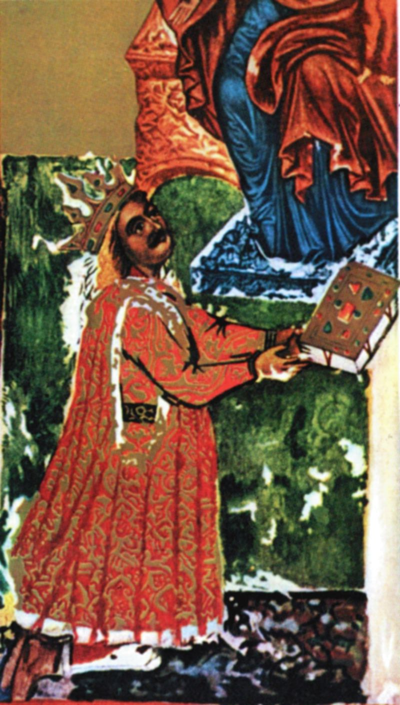 Contemporaneous image of Stephen the Great.